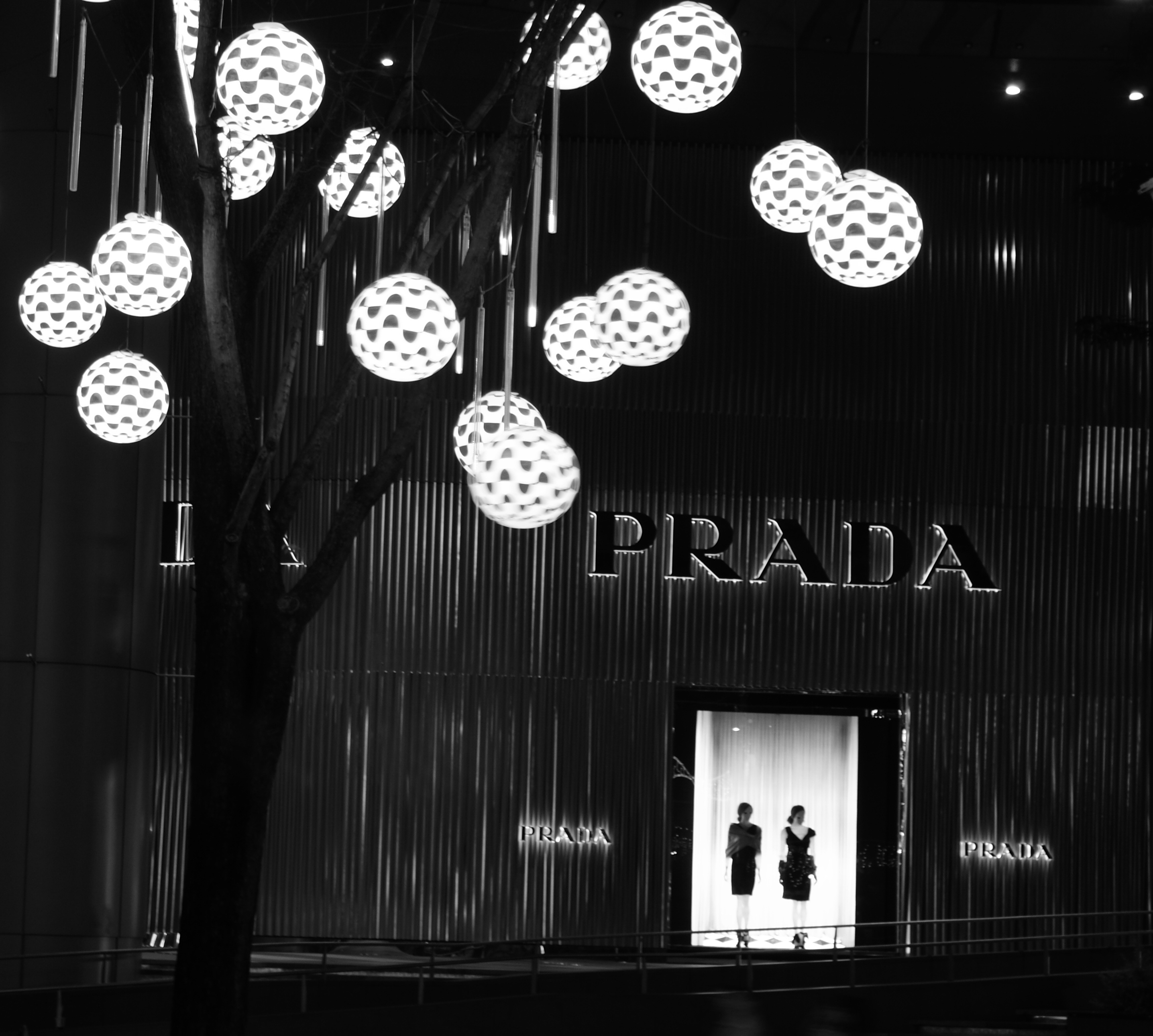 One of Prada Store in Singapore